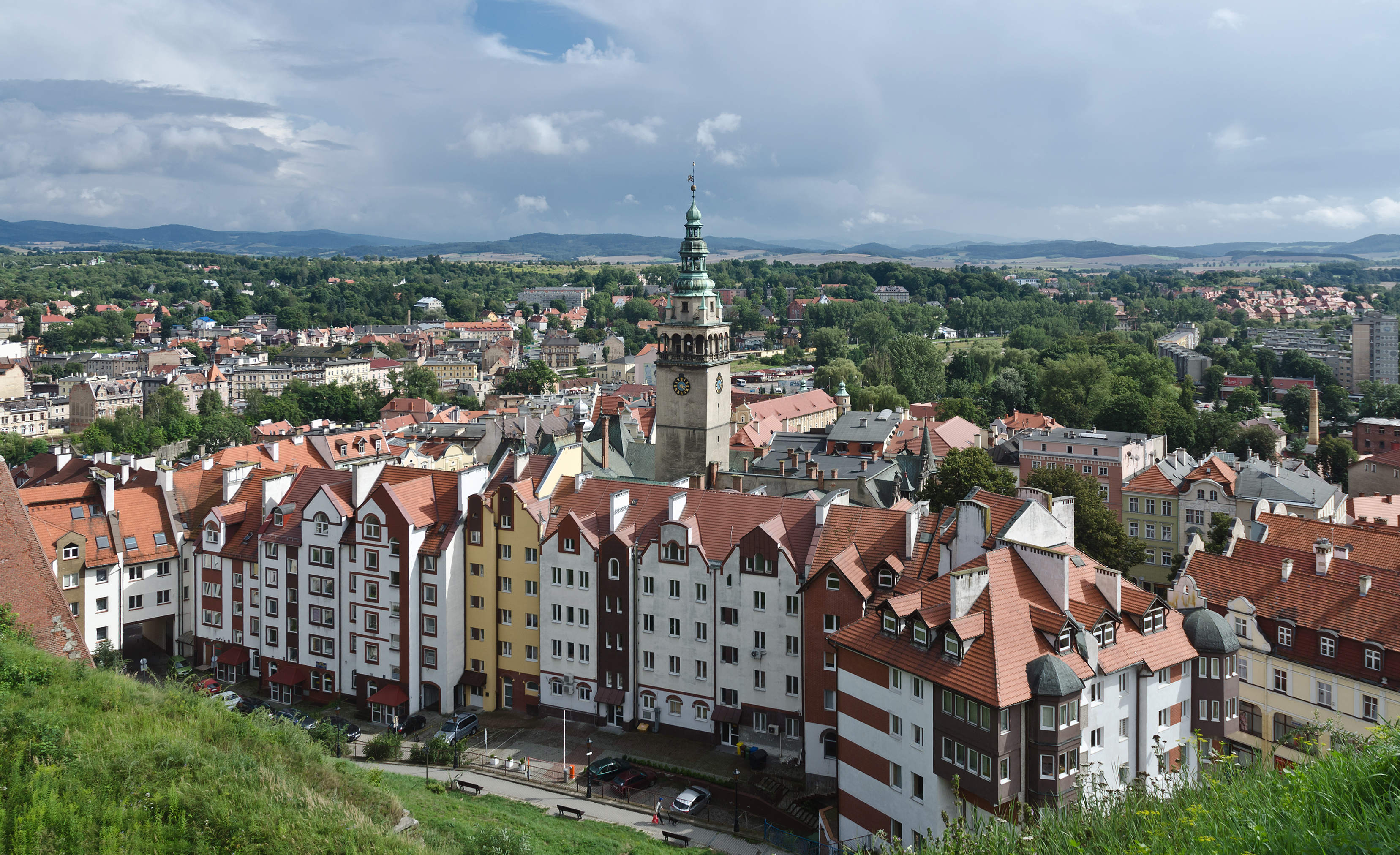 Northern frontage of the market square and the town hall tower in Kłodzko